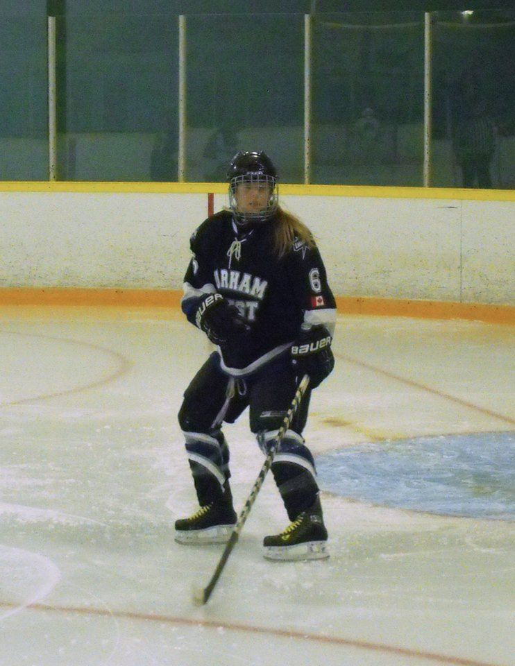 Taken by Devan Mighton during 2013-14 PWHL season.